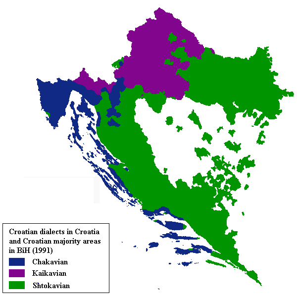 Added areas in BiH which had croatian majority in 1991 to cro dialect map.